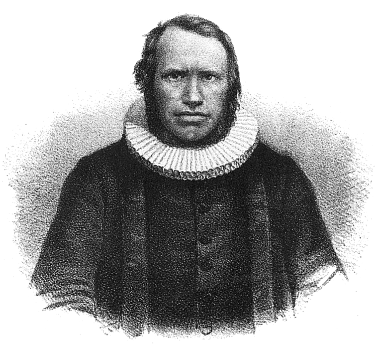 Portrait of the Norwegian missionary Hans Paludan Smith Schreuder (1817–1882)